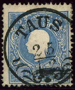 15 kreuzer Issue II, type II, cancelled in Taus with Mueller type RSb-f